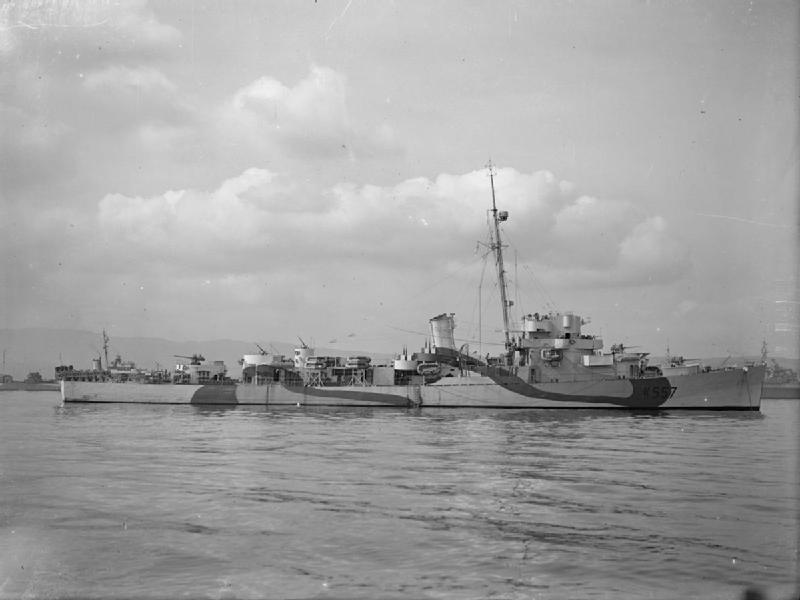 Photograph of Captain class frigate HMS Riou, off Greenock.